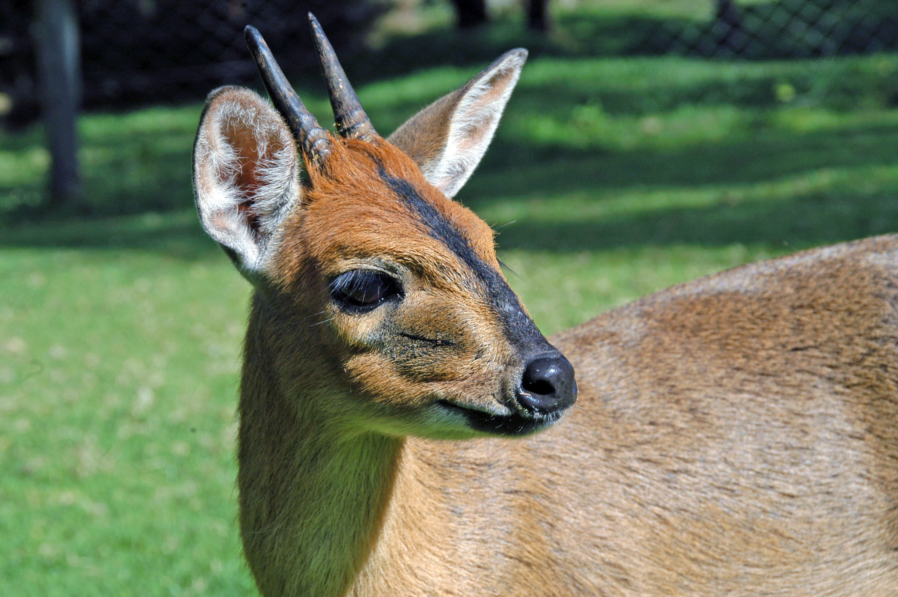 Mount Kenya Wildlife Conservancy. Released to public domain.